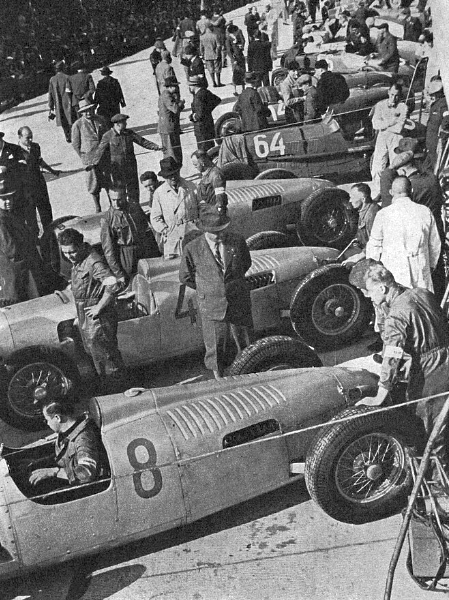 Auto Union cars before the Grand Prix in Brno, no. 8 later winner Bernd Rosemeyer, at the no. 4 in the light coat dr. Ferdinand Porsche (1935)